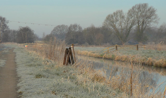 Glastonbury Canal in Shapwick Heath National Nature Reserve The picture is taken from the old trackbed of the Somerset and Dorset Railway Highbridge branch, now a walkway through the NNR. The 'A'frame is part of the system of sluices used to keep the water levels at their optimal level for the wildlife in the reedbeds and pools.